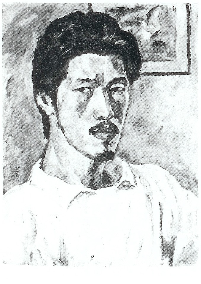 Onchi Kôshiro by himself